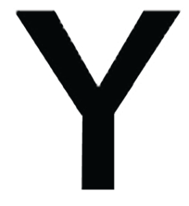 Logo for the Y-Flyer class of sailing boat